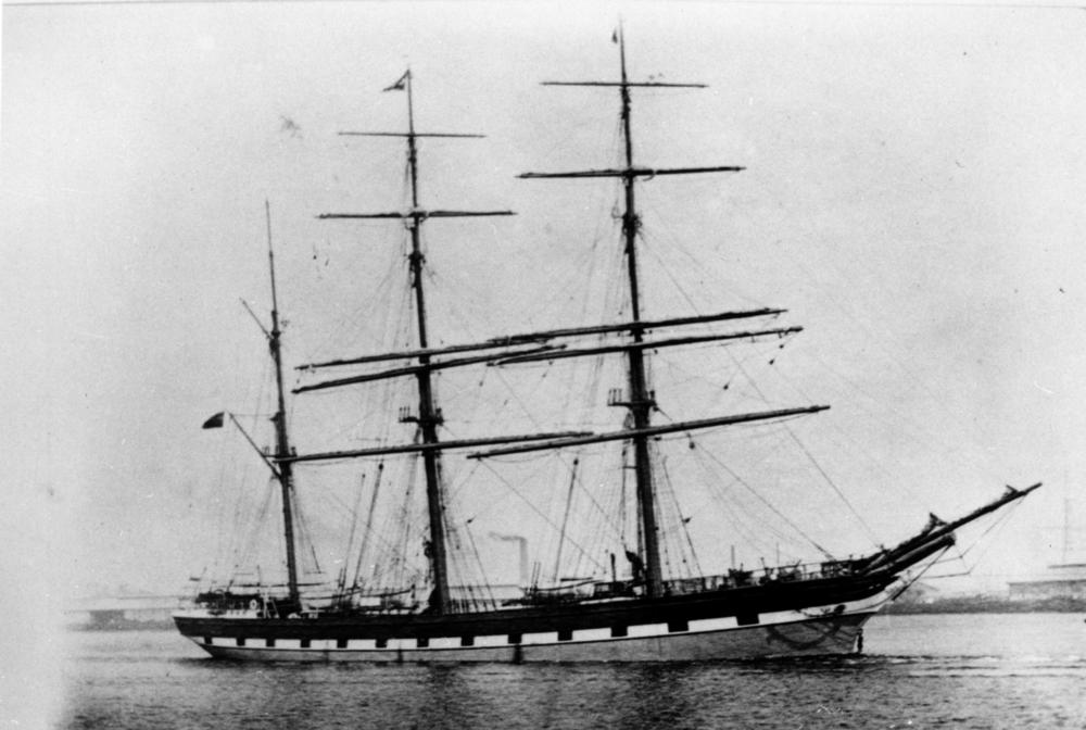 Loch Tay (ship)